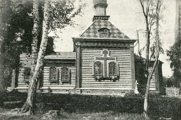 Church of the Kazansky Golovinsky convent near Moscow